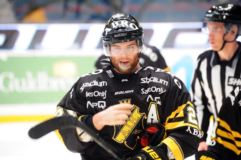 Christian Sandberg during a SHL game.